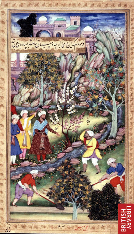 "Babur watching men altering the course of the stream at Istalif so that it flowed in a straight line. An illustration to the memoirs of the Emperor Babur. Illustrator: Mahesh. India, c.1590"* (BL)